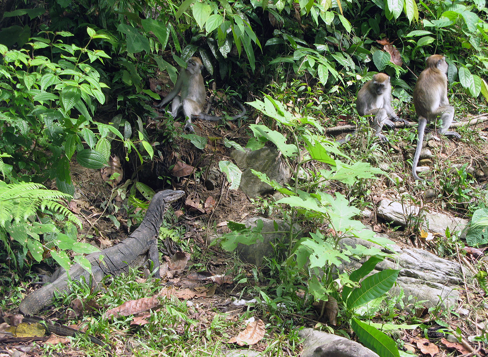 Gunung Leuser National Park in northern Sumatra, Indonesia.